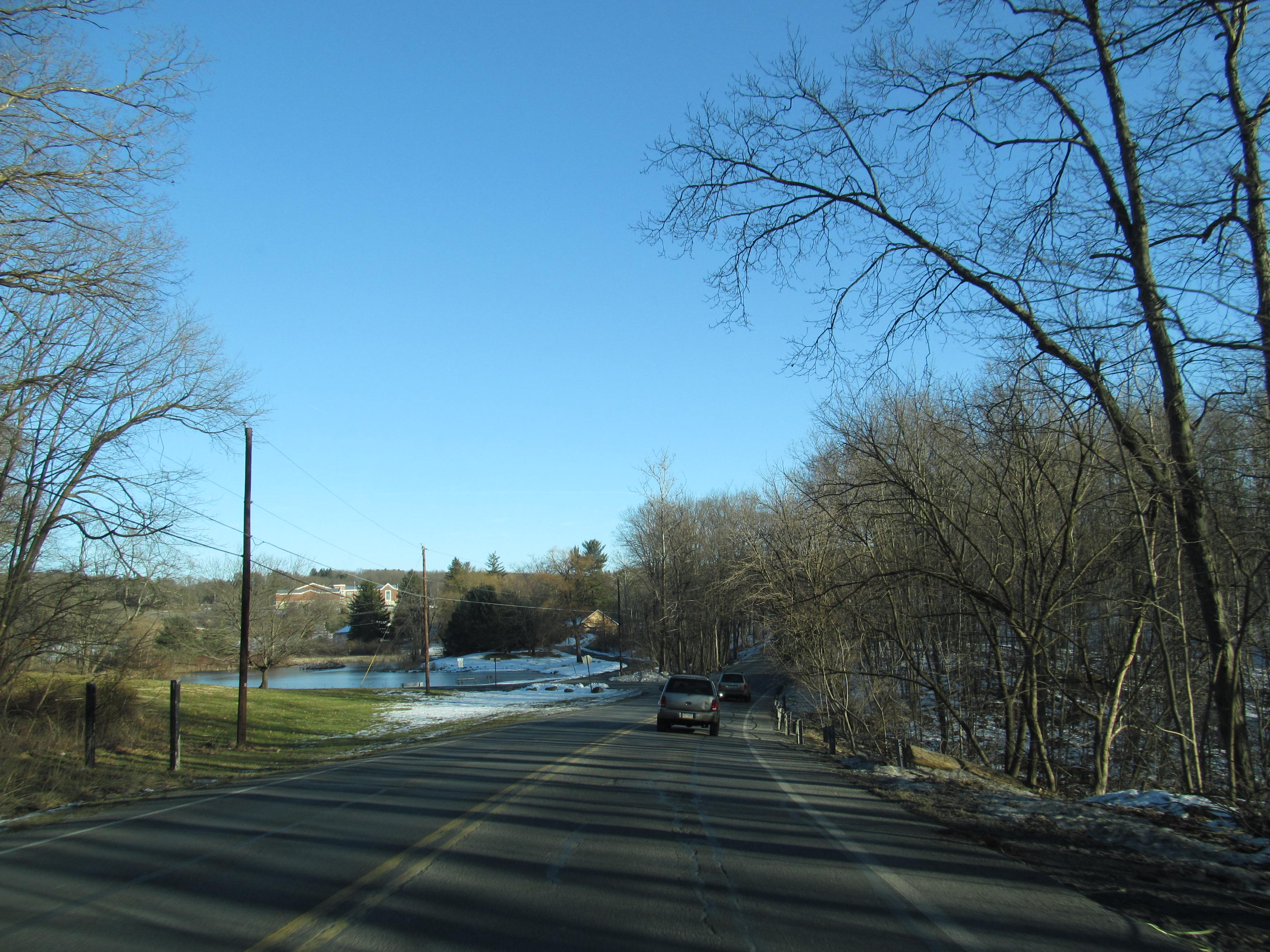 Pennsylvania State Route 447 through Smithfield Township, Pennsylvania.